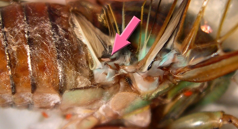 Parasite moth Epipomponia nawai (Lepidoptera:Epipyropidae). A 1st instar larva (about 0.6mm long) near the basal area of the right hind wing of a female Tanna japonensis. Yokohama, kanagawa, japan.